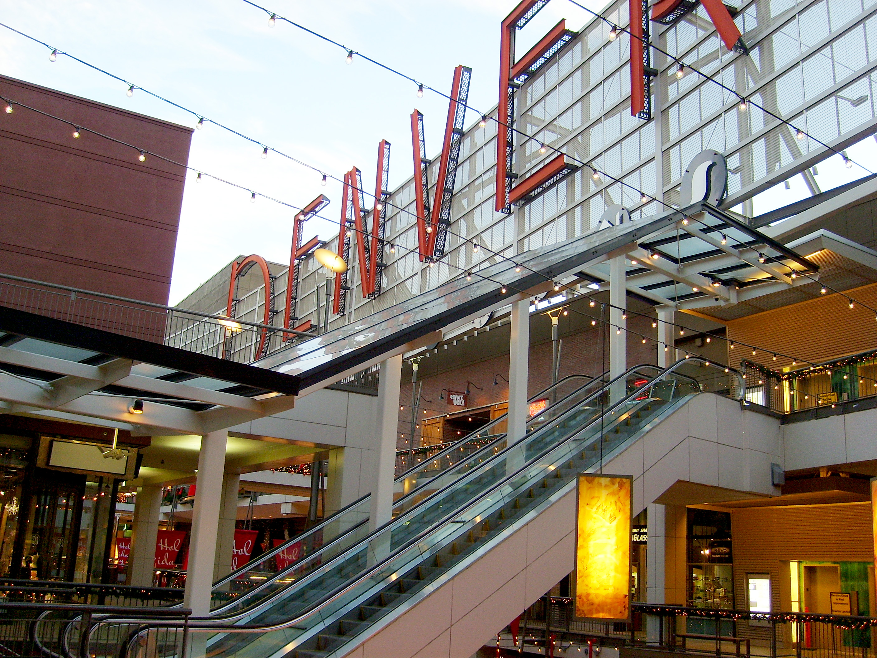 I saw this in every tourist magazine. It's a mall that is located on the 16th Street Mall. A mall within a mile long street mall.